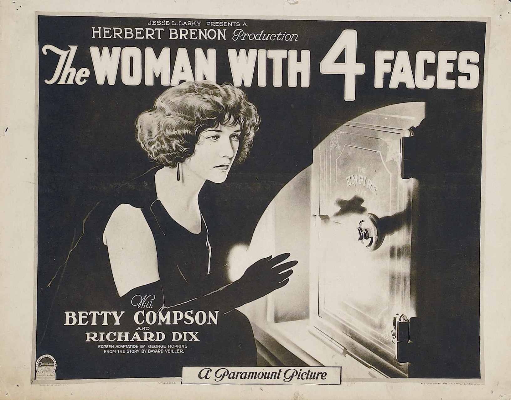 Lobby card for the American crime melodrama film The Woman With Four Faces (1923). There are no copyright marks on the item. At Bottom left is Country of origin USA. At mid bottom is Wyanoak NYC-they printed the card. At bottom right is This lobby display leased from Famous Players Lasky Corp.